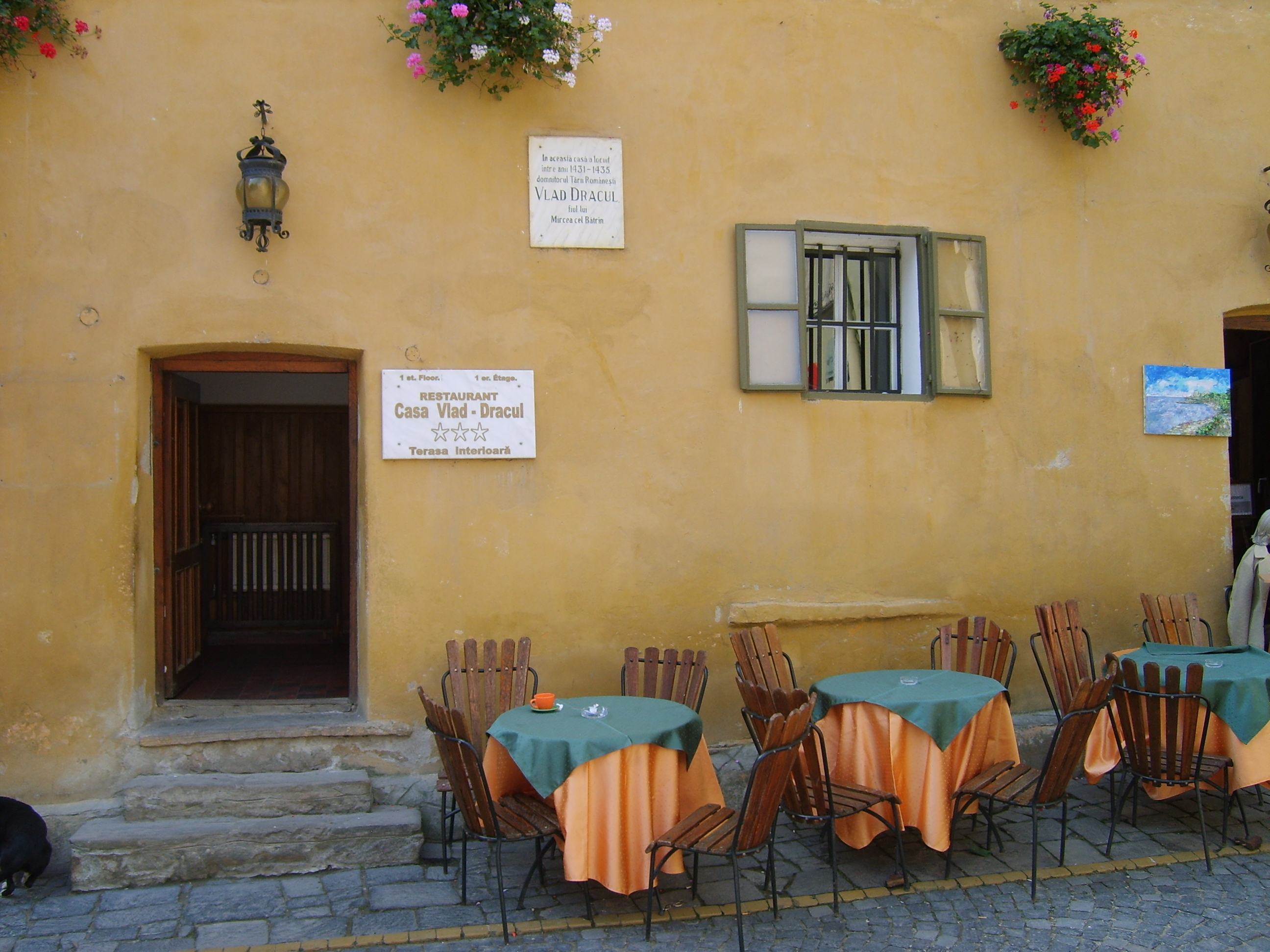 the house where Vlad Tepes, known as Dracul, was born. Nowadays it's a restaurant